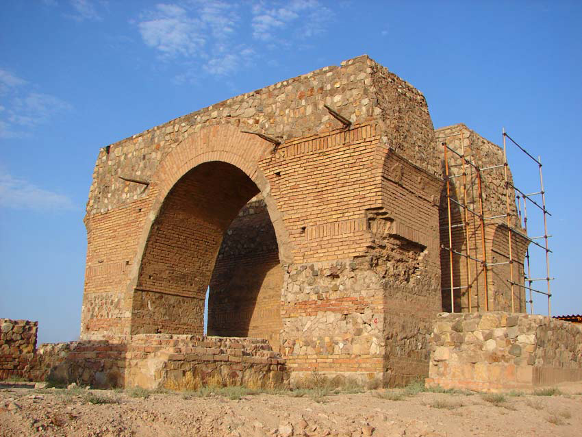 Picture of the Bahram fire temple in Rey, Iran, which has stood since the Sassanid Empire.